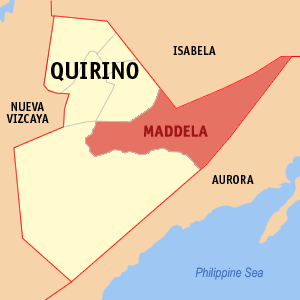 Map of Quirino showing the location of Maddela